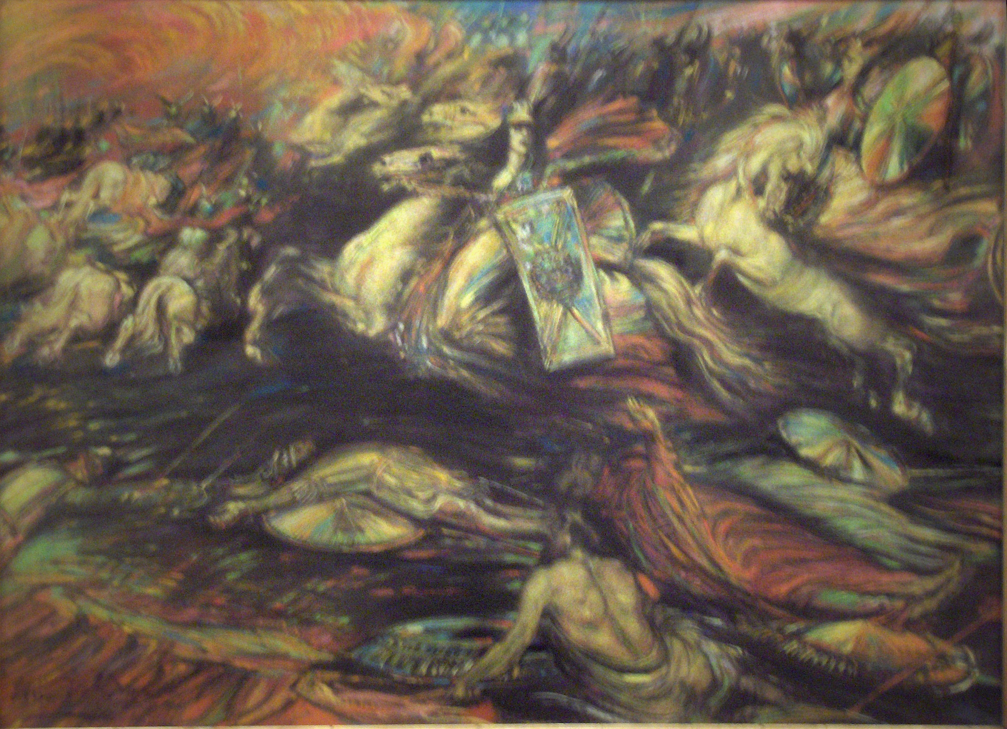 Ride of the Valkyries (ca. 1890) by Henry De Groux (1867-1930)